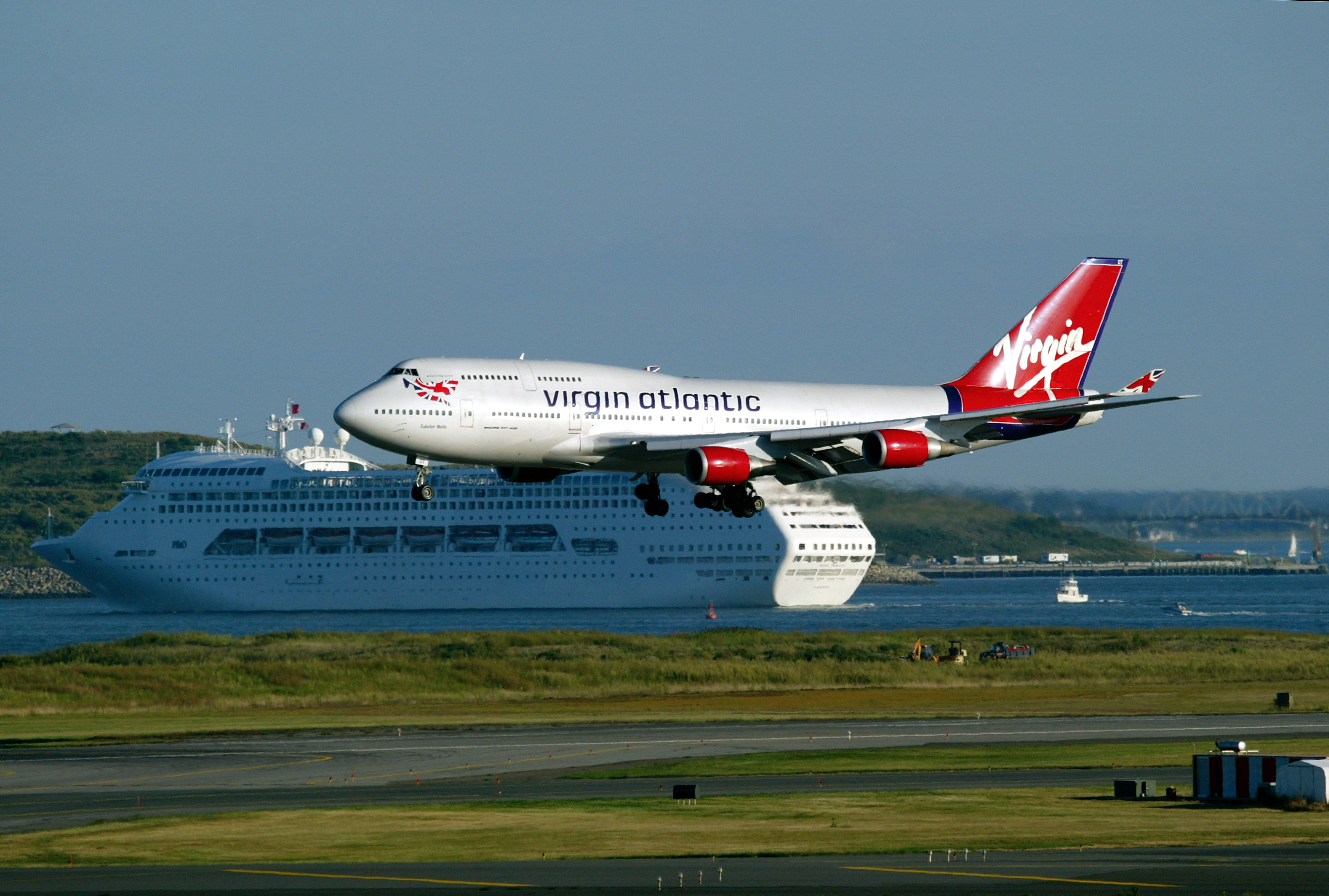 Virgin Atlantic 747 comes in for landing at Logan Airport Boston, Massachusetts. Cruise ship, Boston Harbor background.